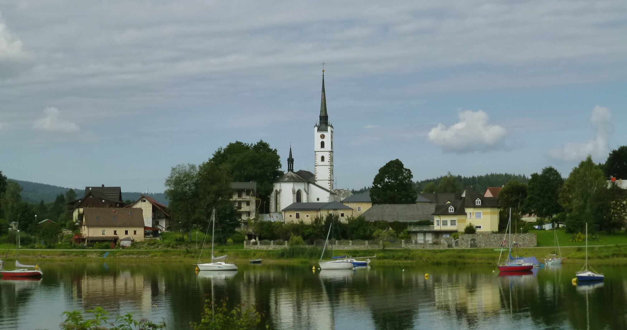 Náhlovský river confluent with the Vltava (Lipno) reservoir, upstream Vyšší Brod. Church in Frymburk view from road 163.